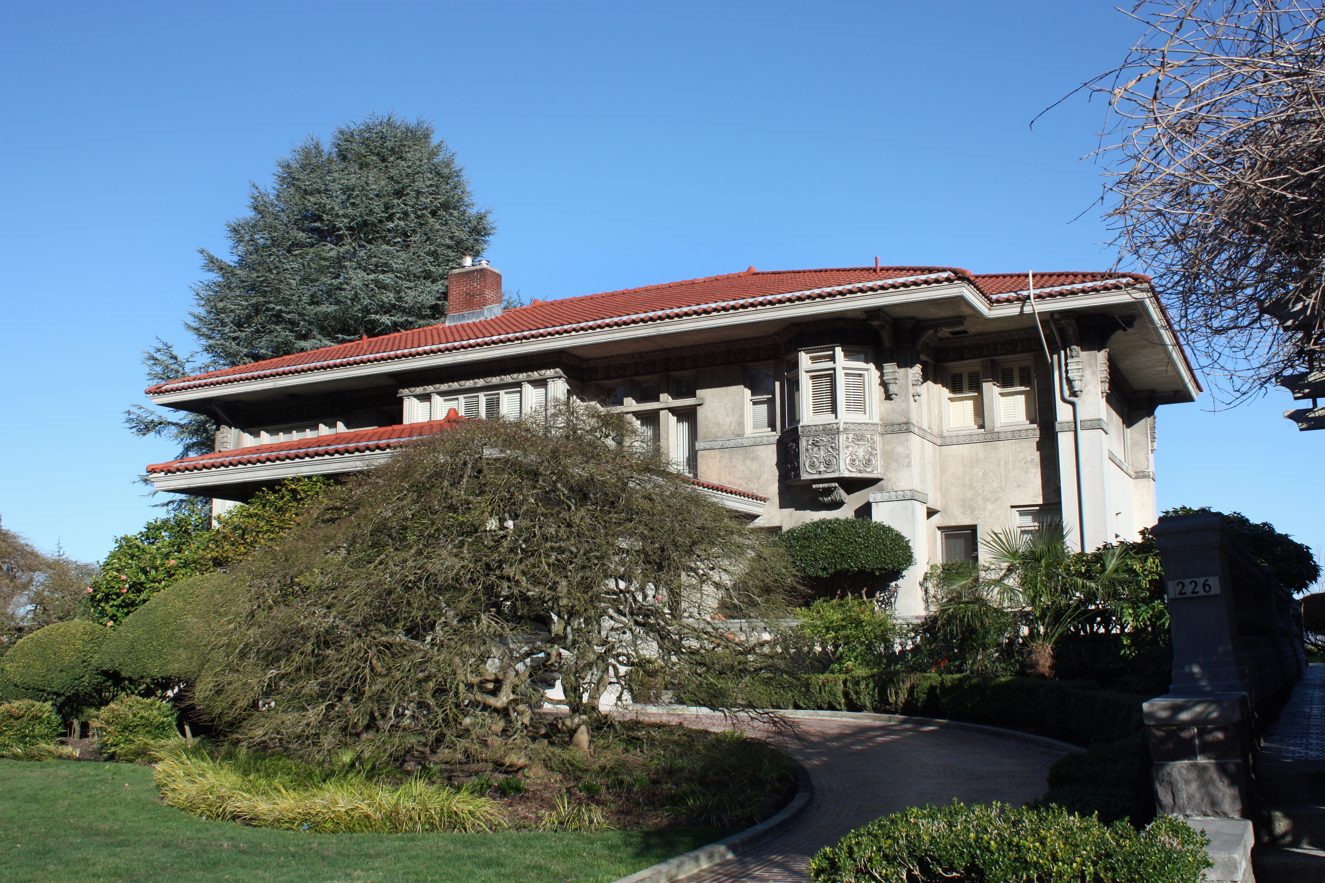 The historic A.H. Maegly House (built 1914) located at 226 SW Kingston Avenue in Portland, Oregon, United States, is listed on the US National Register of Historic Places (NRHP). It was designed by John Virginius Bennes.